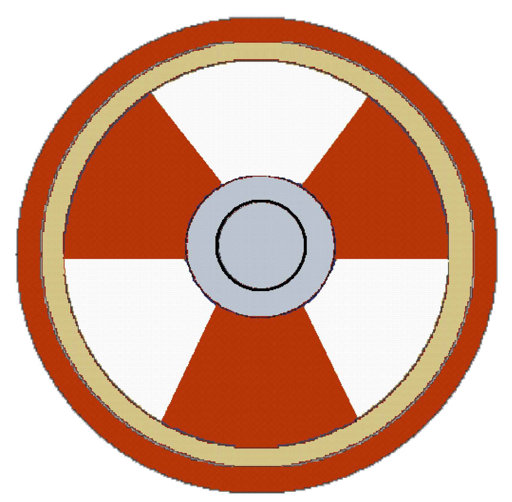 Shield pattern og the Moesiaci seniores is the sixth of the legiones palatinae listed in the Magister Peditum's infantry roster; it is assigned (102/5.59) to his Italian command.